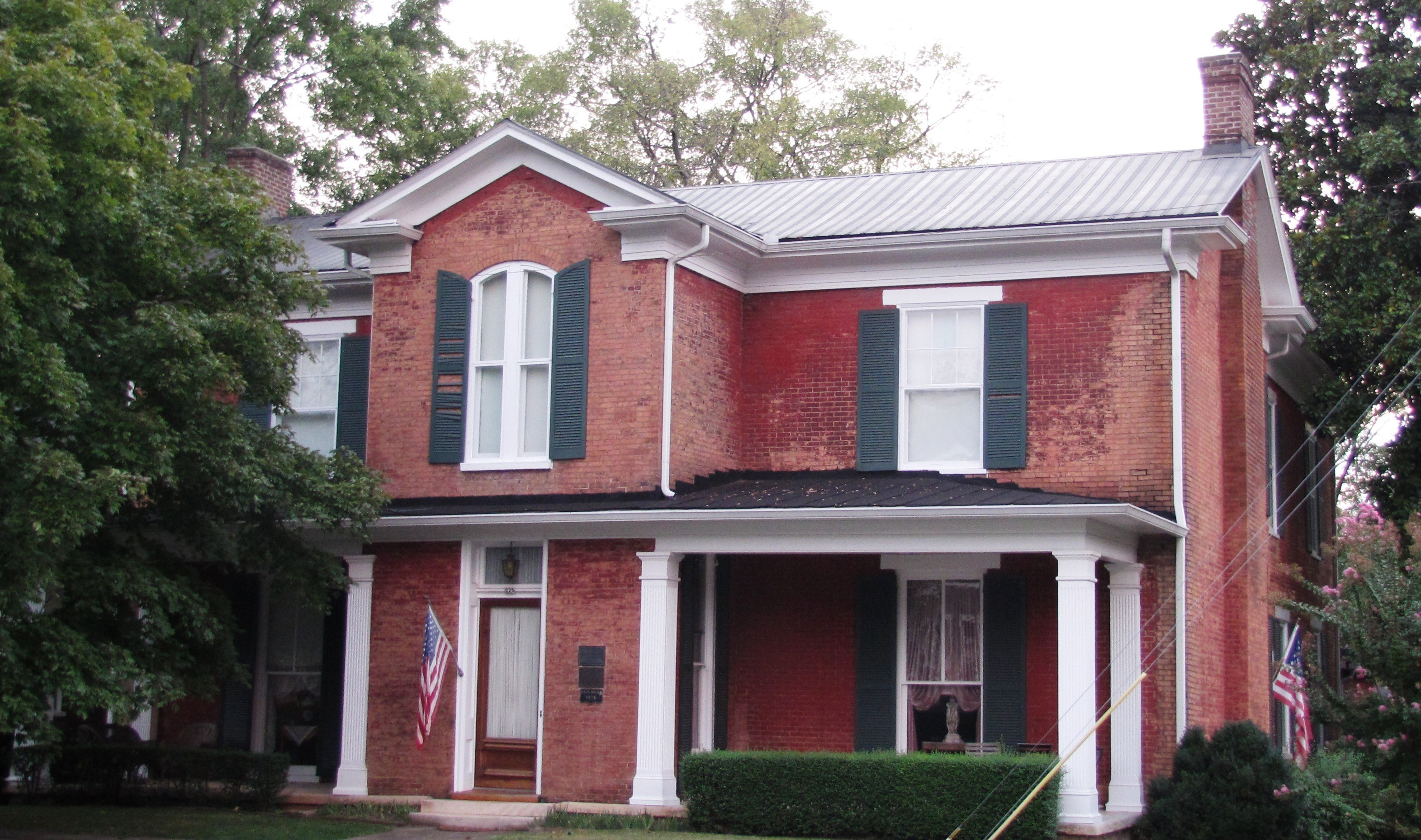 The Childress-Ray House (225 N. Academy) in Murfreesboro, Tennessee, USA. Built in 1847 and extensively remodeled in 1874, this house now listed on the National Register of Historic Places.